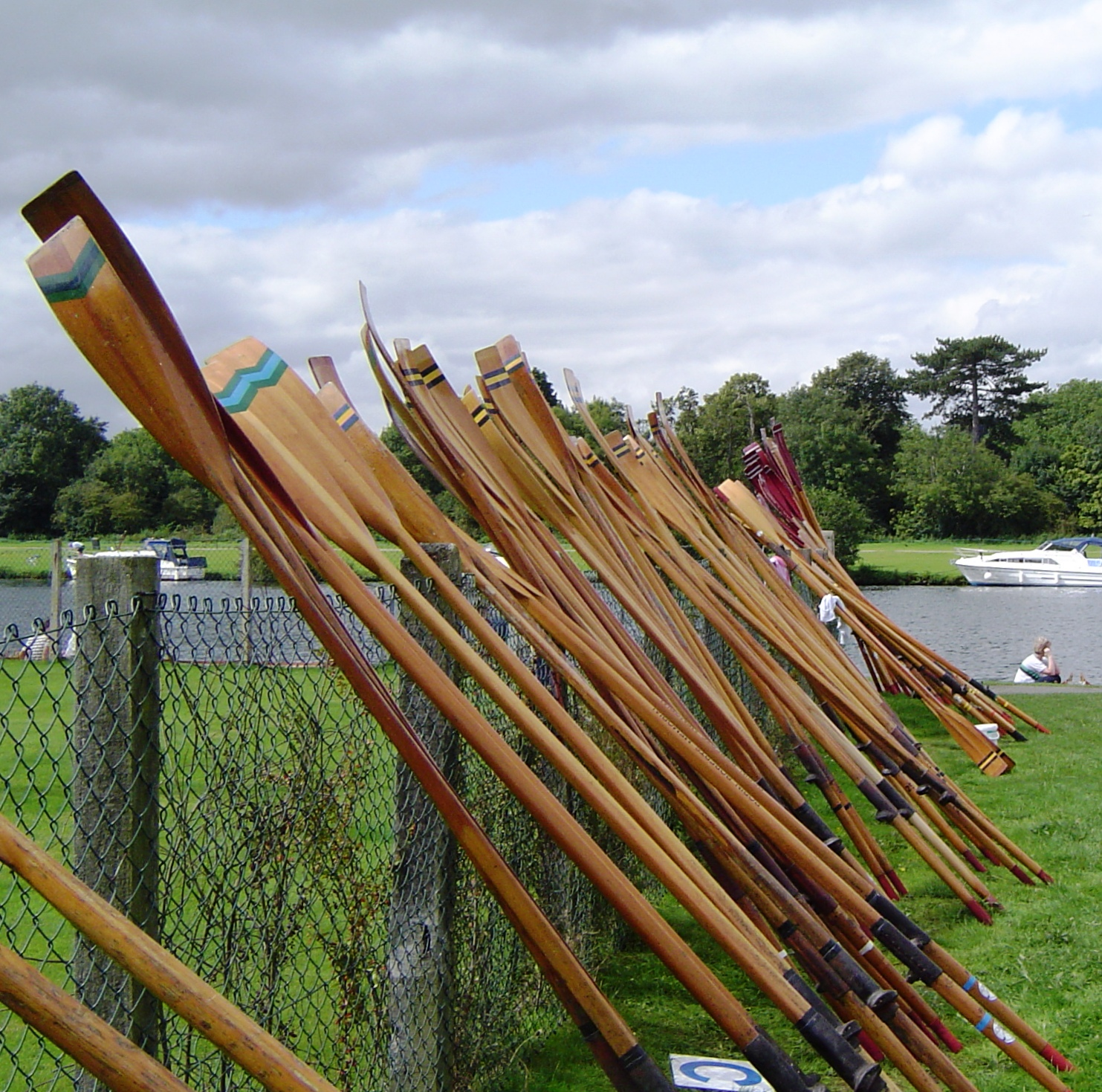 Sets of traditional wooden oars